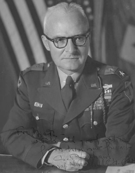 Major General Charles T. Lanham (September 14, 1902 - July 20, 1978) was a decorated US Army officer, who commanded the 22nd Infantry Regiment during World War II.